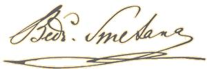 Signature of Bedřich Smetana, 1824 - 1884.